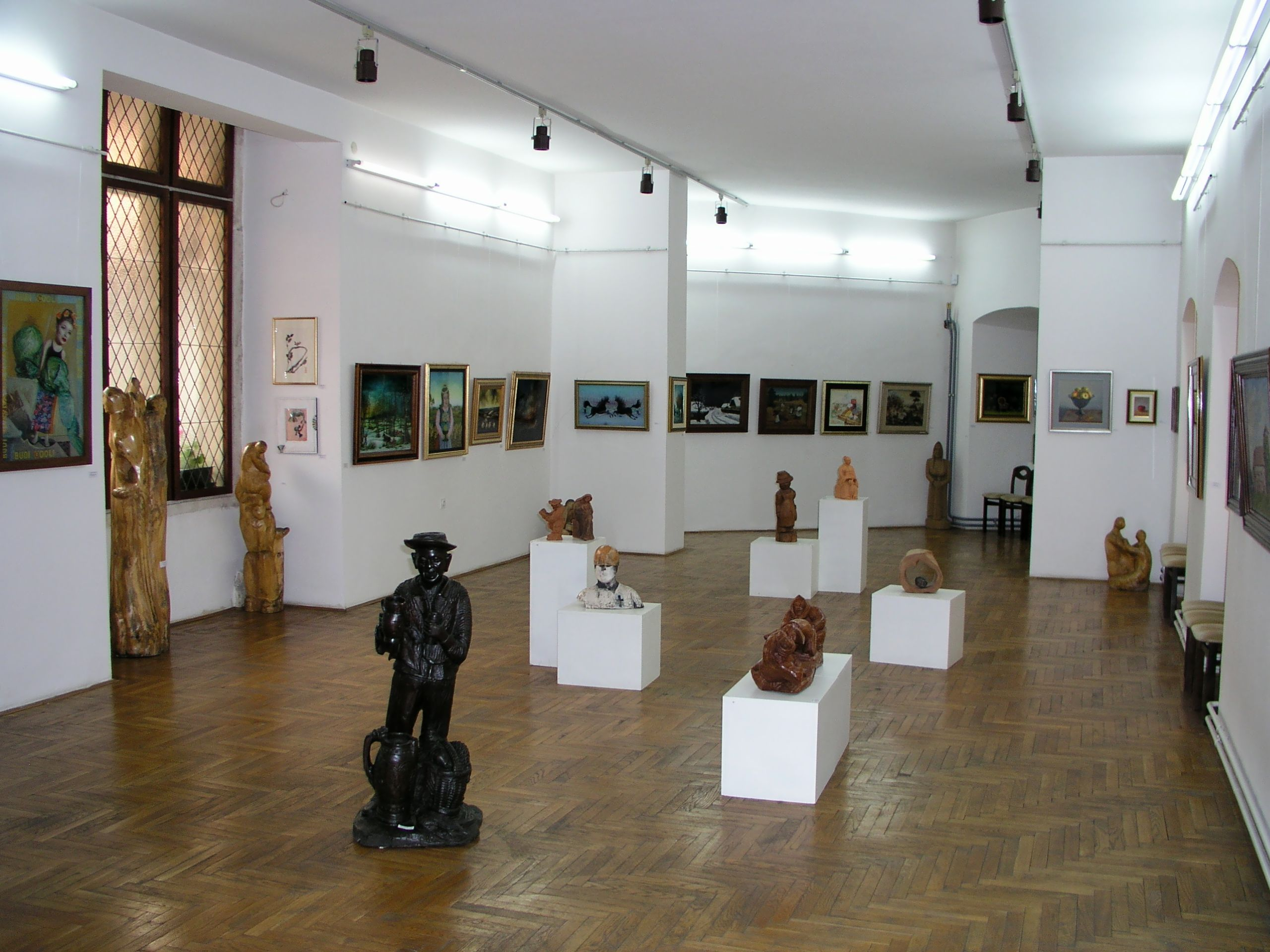 Gallery Old Town (Stari grad) in Đurđevac, Croatia